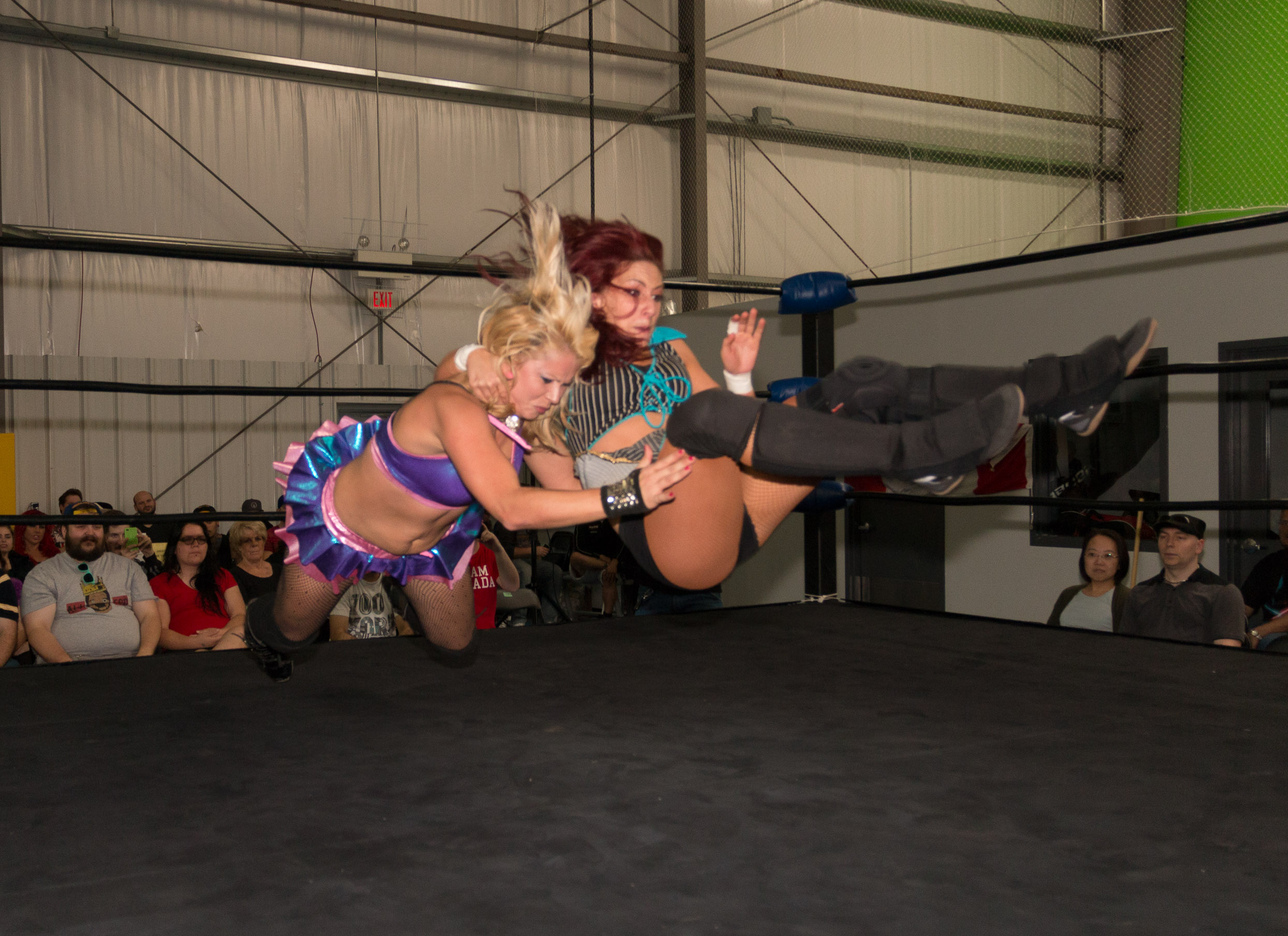 Veda Scott executing the bulldog portion of her Springboard bulldog on Jewells Malone at Smash Wrestling's The Usual Suspects show at the Canlan Sportsplex in Mississauga, ON